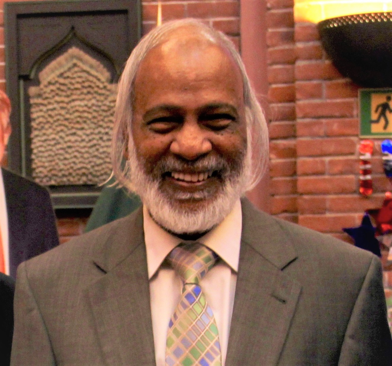 Abdul Moyeen Khan at the U.S. Embassy in Dhaka